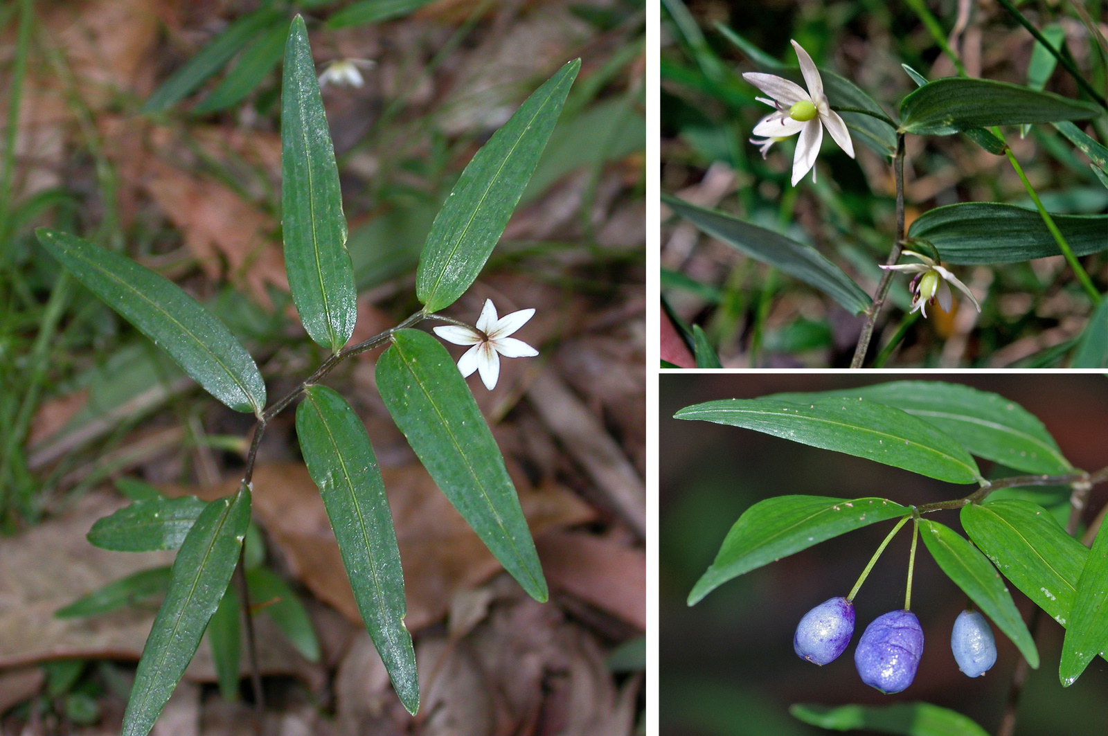 Drymophila cyanocarpa (Turquoise Berry). Branched herb to 40 cm high. Flowers Nov - Jan